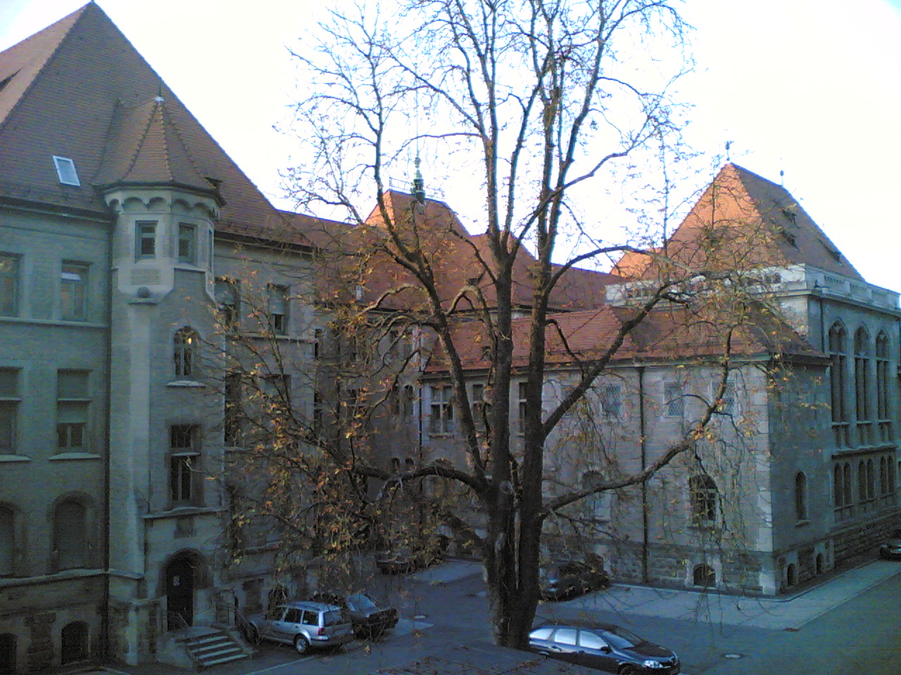 Local and District Court (civil and criminal court) of Tübingen, Germany (back view)